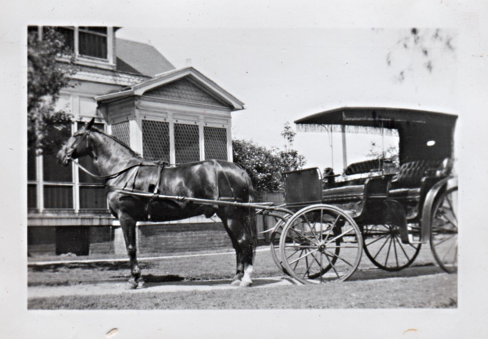 Carriage & horse, Buttons, owned by the Wilson family, 2922 Swiss Ave., Dallas, TX